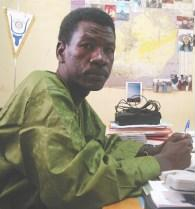 Journalist Moussa Kaka in Niger, the director of the privately-owned Radio Saraouniya, a Nigerien radio correspondent for Radio France International and Reporter Without Borders. Arrested by government of Niger in September 2007, released in November 2008: faced life imprisonment if found guilty of supporting a rebellion against the government by interviewing Tuareg rebels for Radio France International.